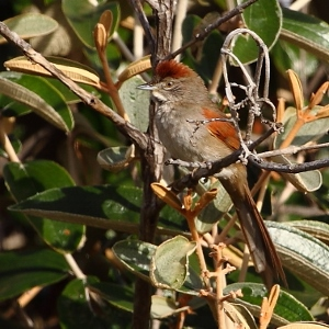 Pale-breasted Spinetail at Chapada dos Veadeiros - GO - Brazil